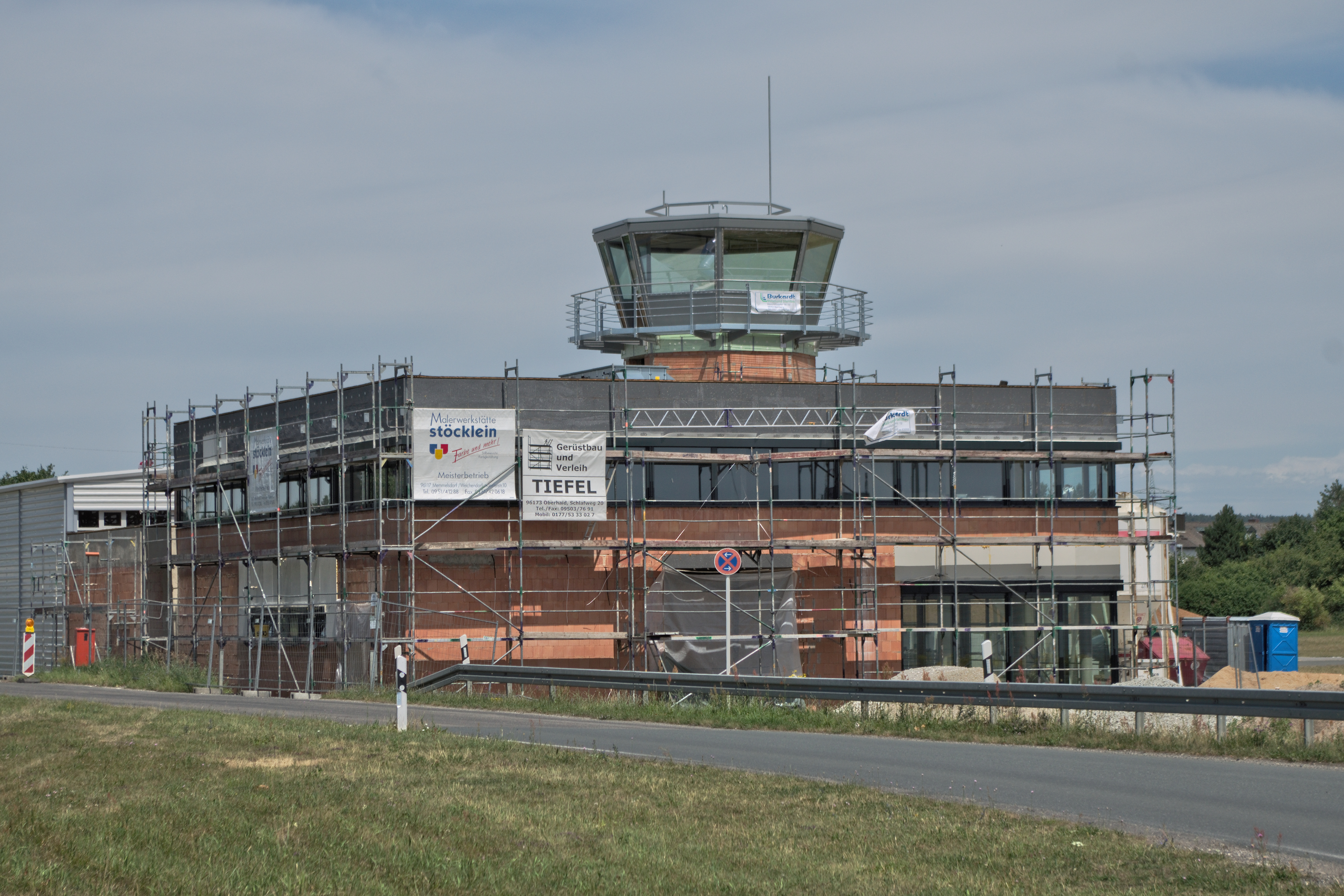 Bamberg-Breitenau airfield, formerly Bamberg US Airfield (ICAO: EDQA)